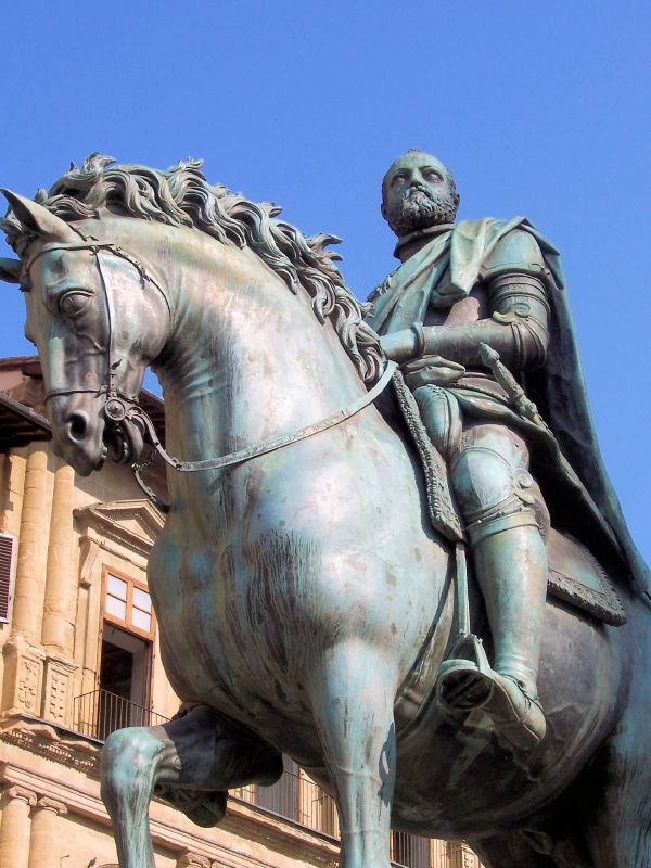 Cosimo Medici's statue on the Piazza della Signoria by Giambologna in Florence, Italy.